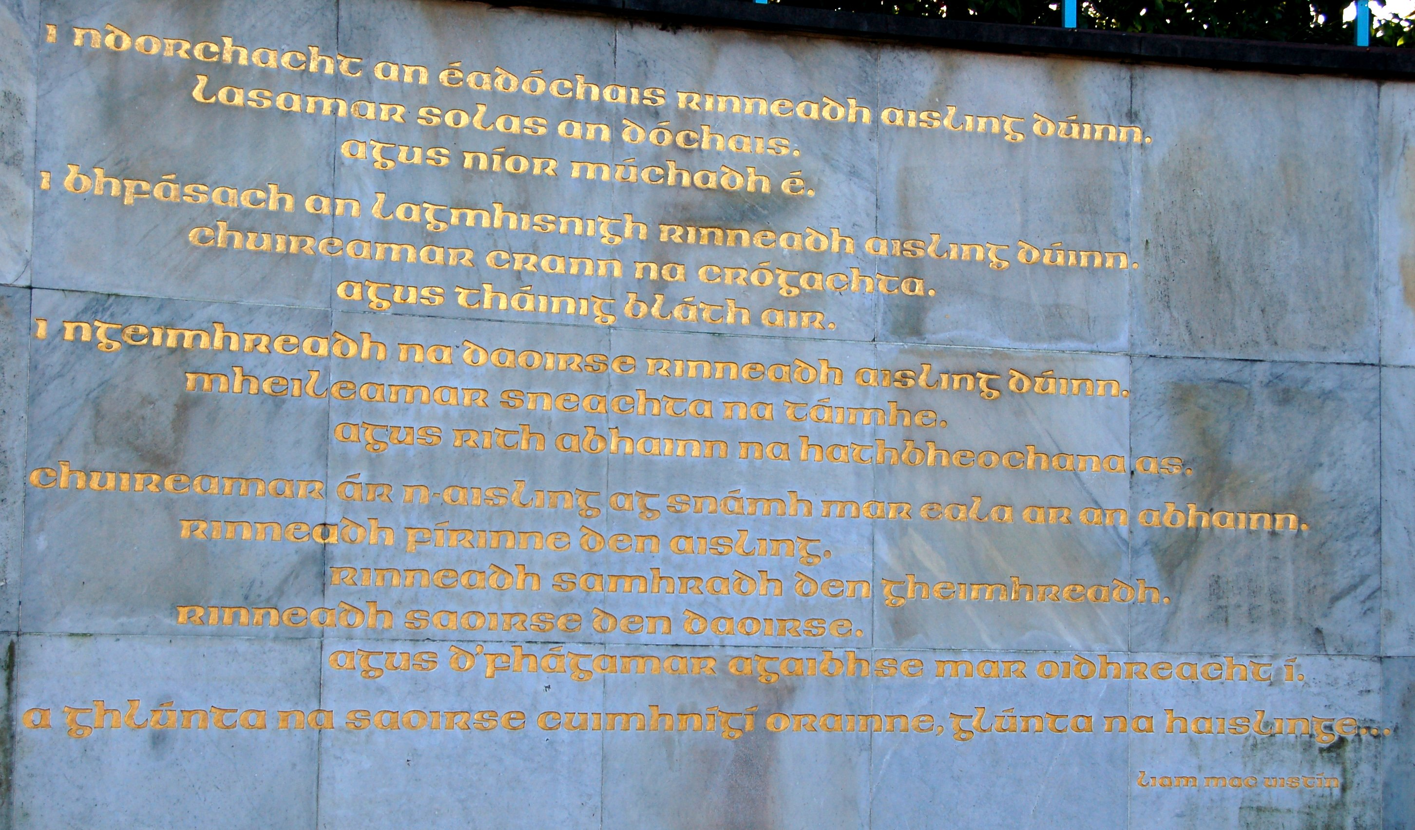 We saw a vision", a poem by Liam Mac Uistin by the Garden of Remembrance (Dublin)